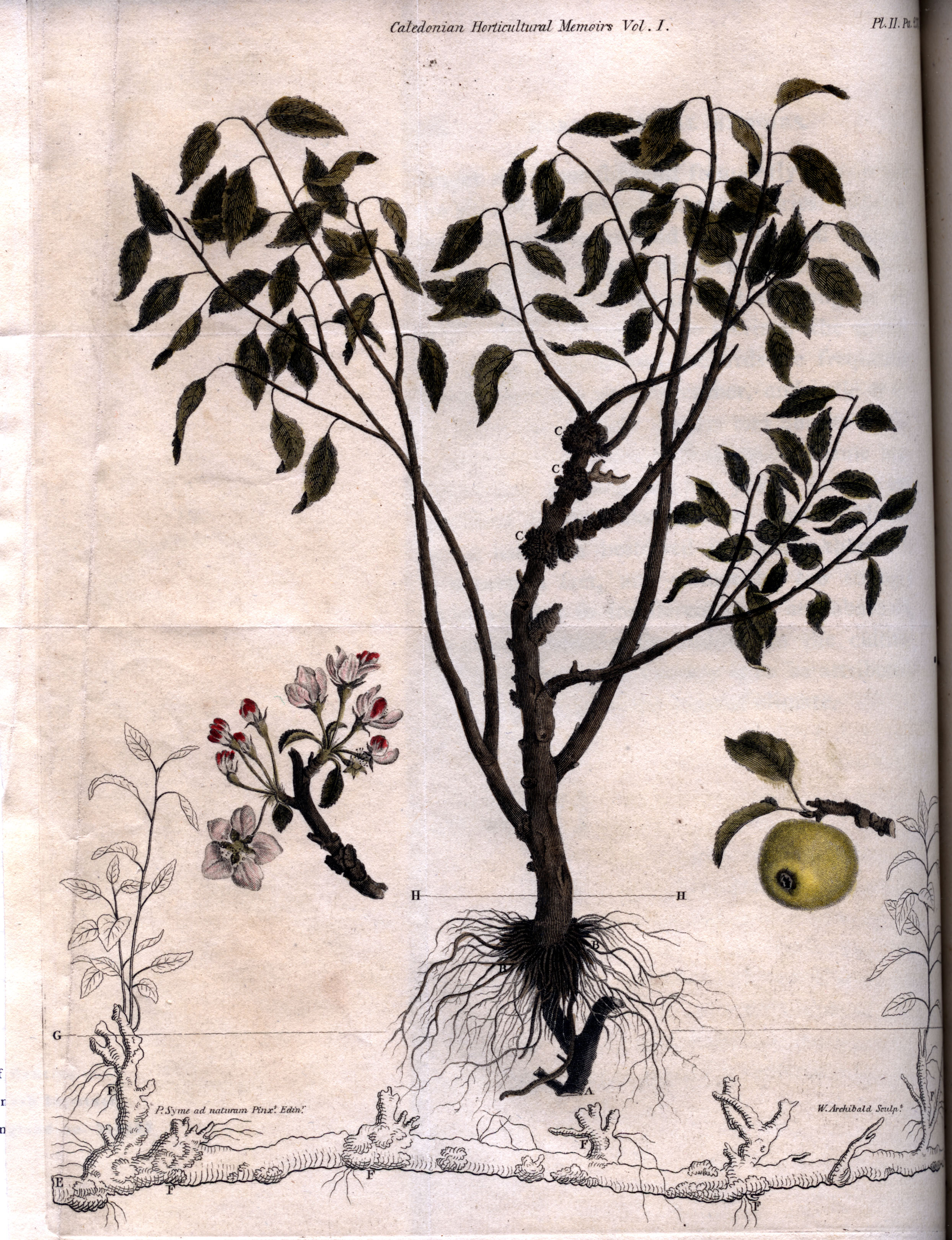 Apple Tree engraving by William Miller for William Archibald after drawing by P Syme, published in Memoirs of the Caledonian Horticultural Society Volume First. Edinburgh: Printed by Neill & Co. for Archibald Constable and Company; and for Longman, Hurst, Rees, Orme and Brown, London, 1814